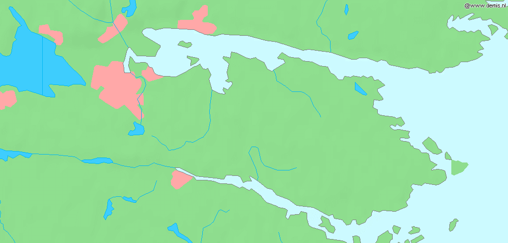 Vikbolandet (peninsula) in Sweden limited by Bråviken (bay, North) and Slätbaken (bay, South) and the Baltic Sea (East). Bounding box West 15.9°, South 58.4°, East 17.1°, North 58.7°. Center at 58°33′00″N 16°30′00″E / 58.55000°N 16.50000°E.